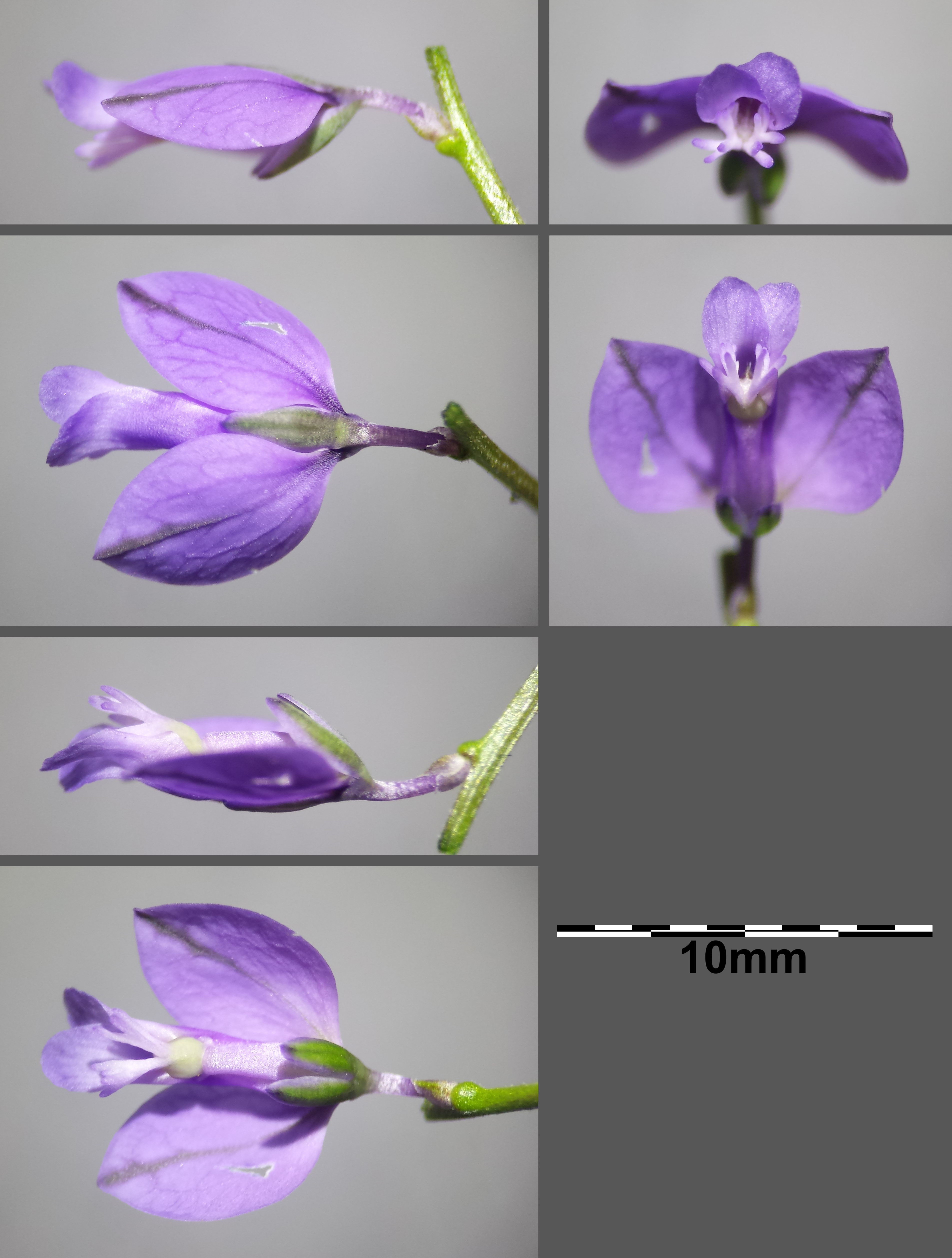 Flower Taxonym: Polygala vulgaris subsp. vulgaris ss Fischer et al. EfÖLS 2008 ISBN 978-3-85474-187-9 Location: nearby Riebeis, Rappottenstein, district Zwettl, Lower Austria - ca. 750 m a.s.l. Habitat: wayside